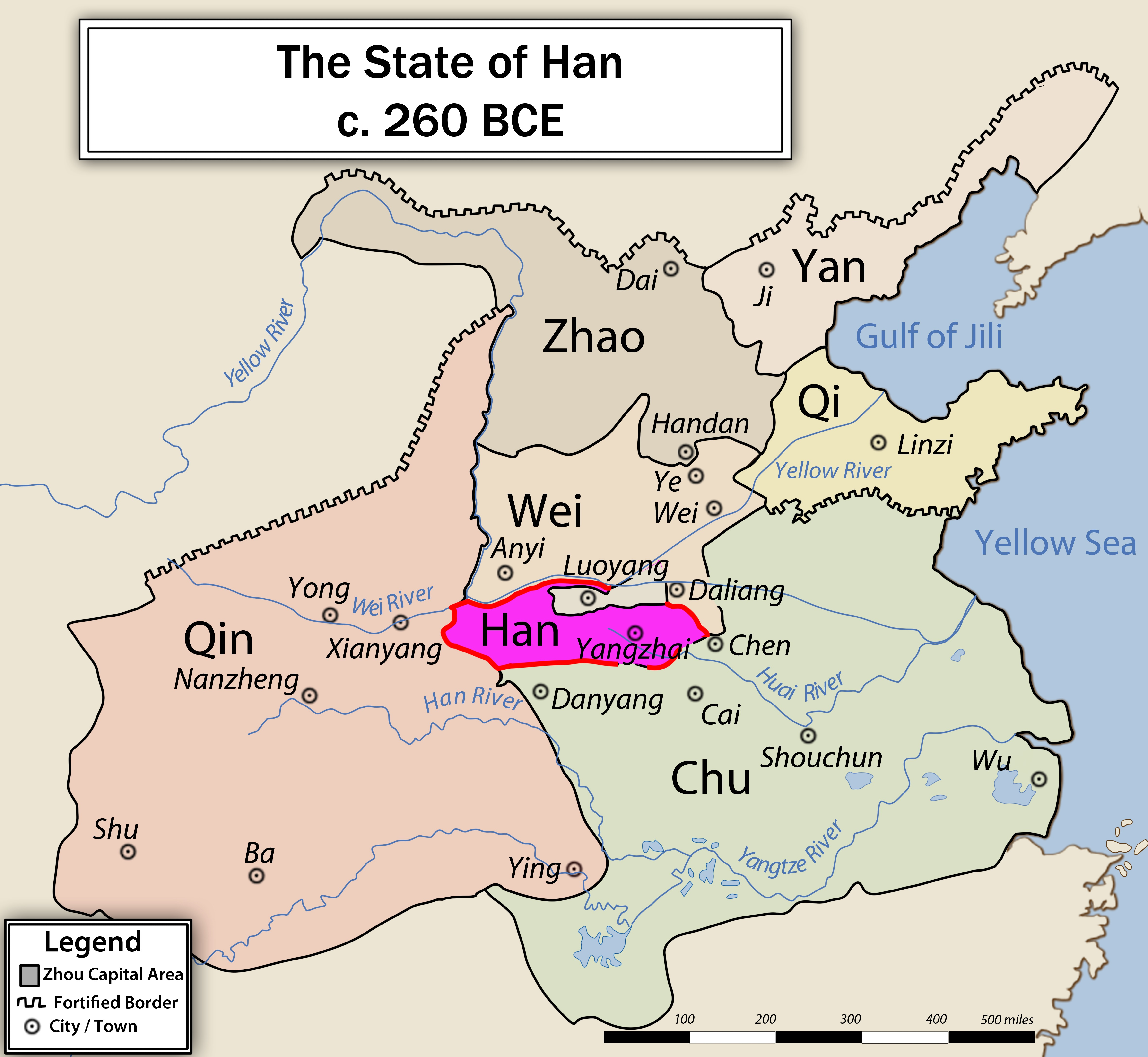 China Map, Han State, 260BCE